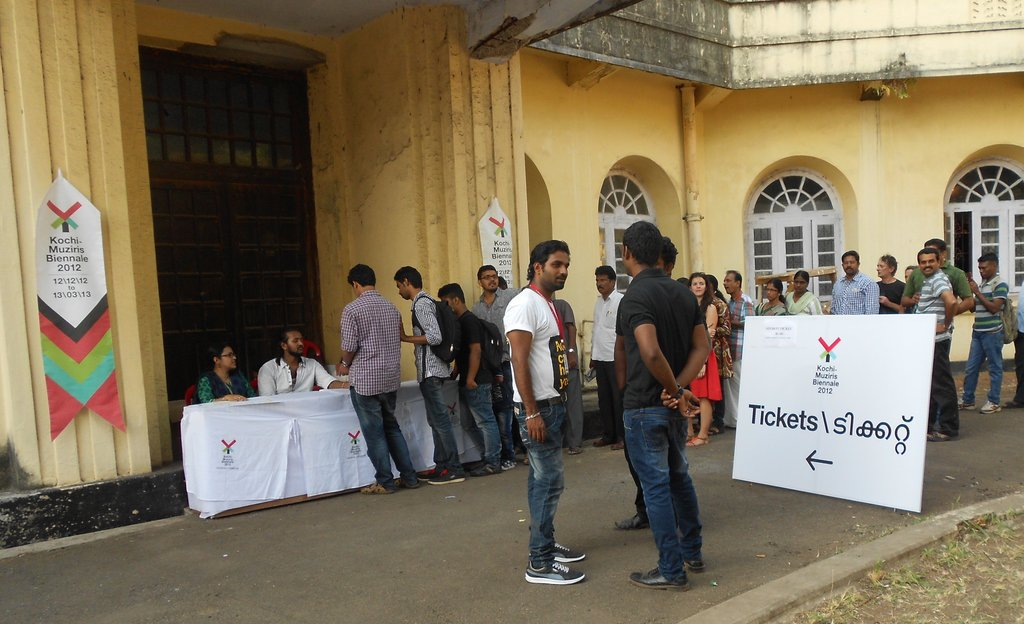 Kochi binalle ticket cue